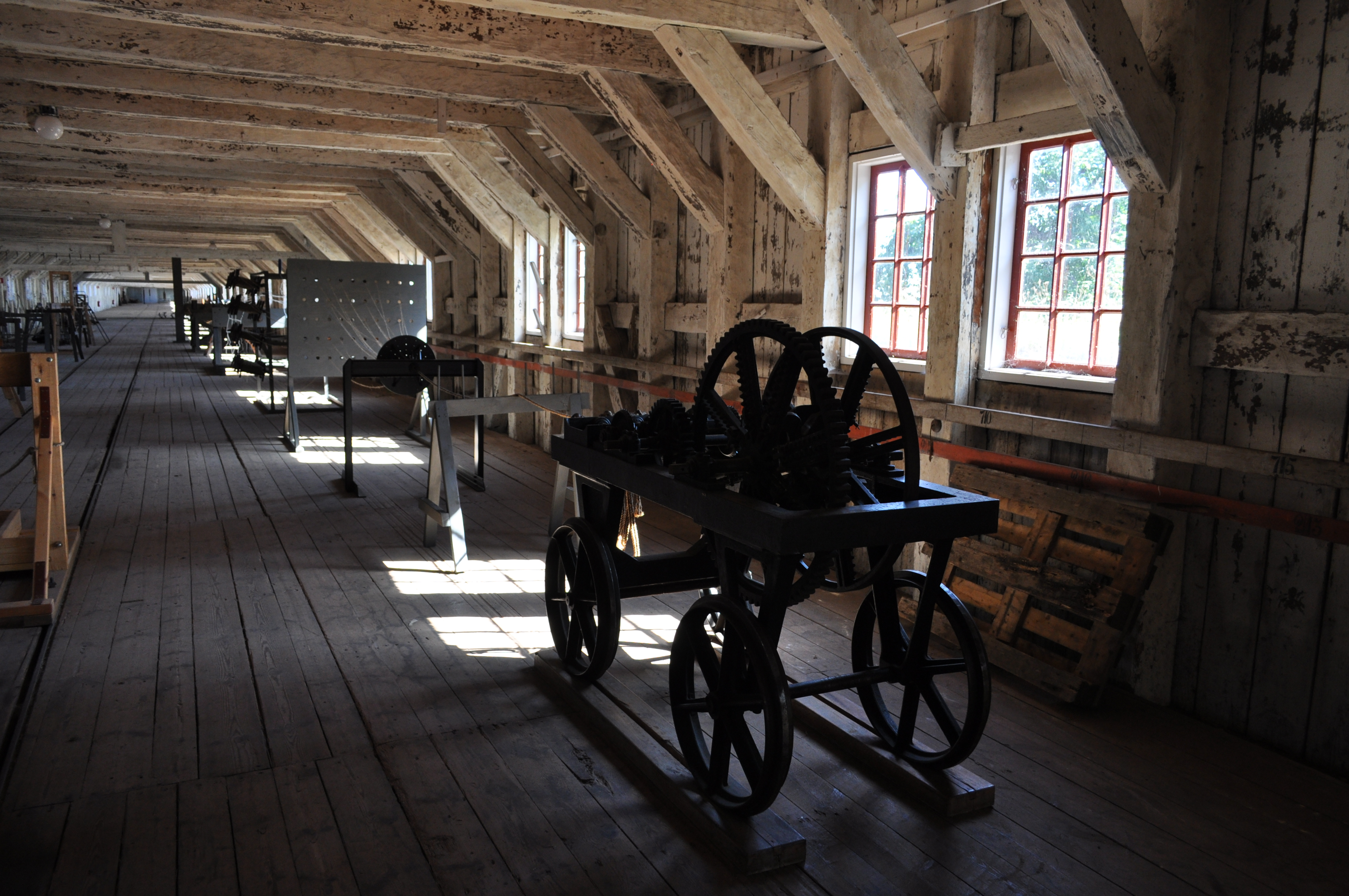 Repslagarbanan on Lindholmen naval port of Karlskrona